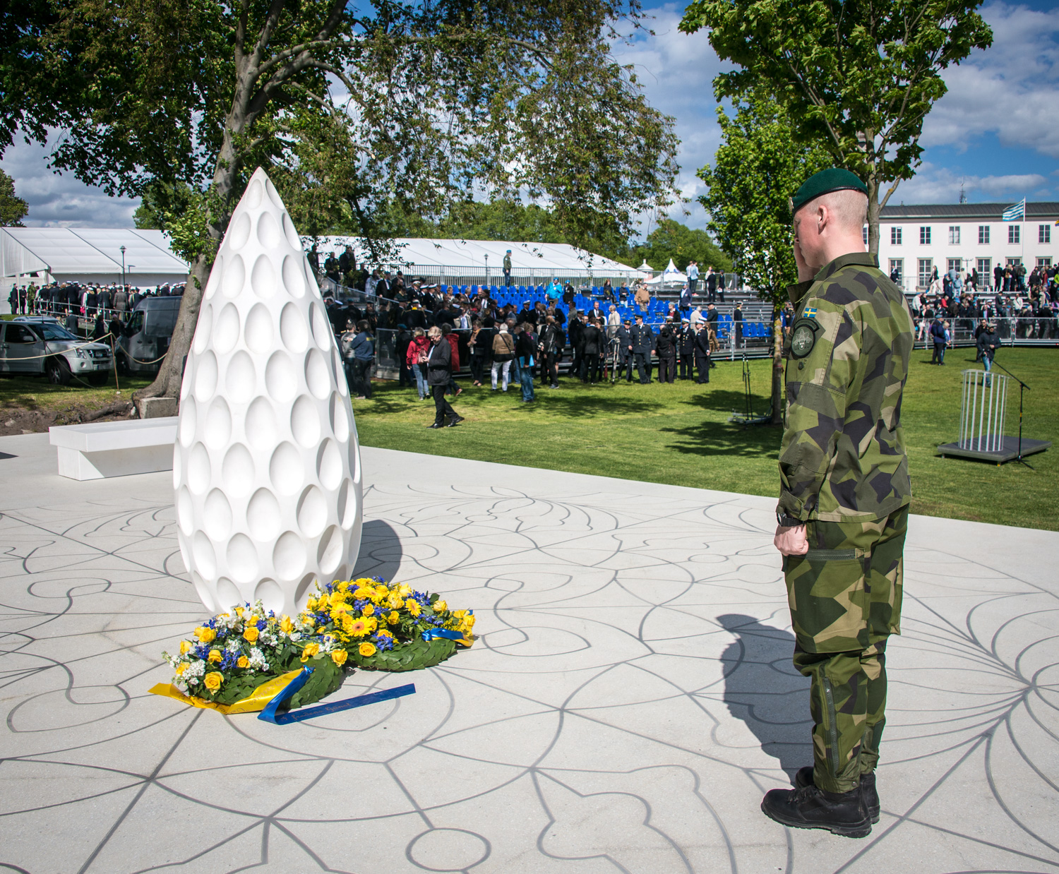 Veterans Day in Stockholm, May 29, 2015.